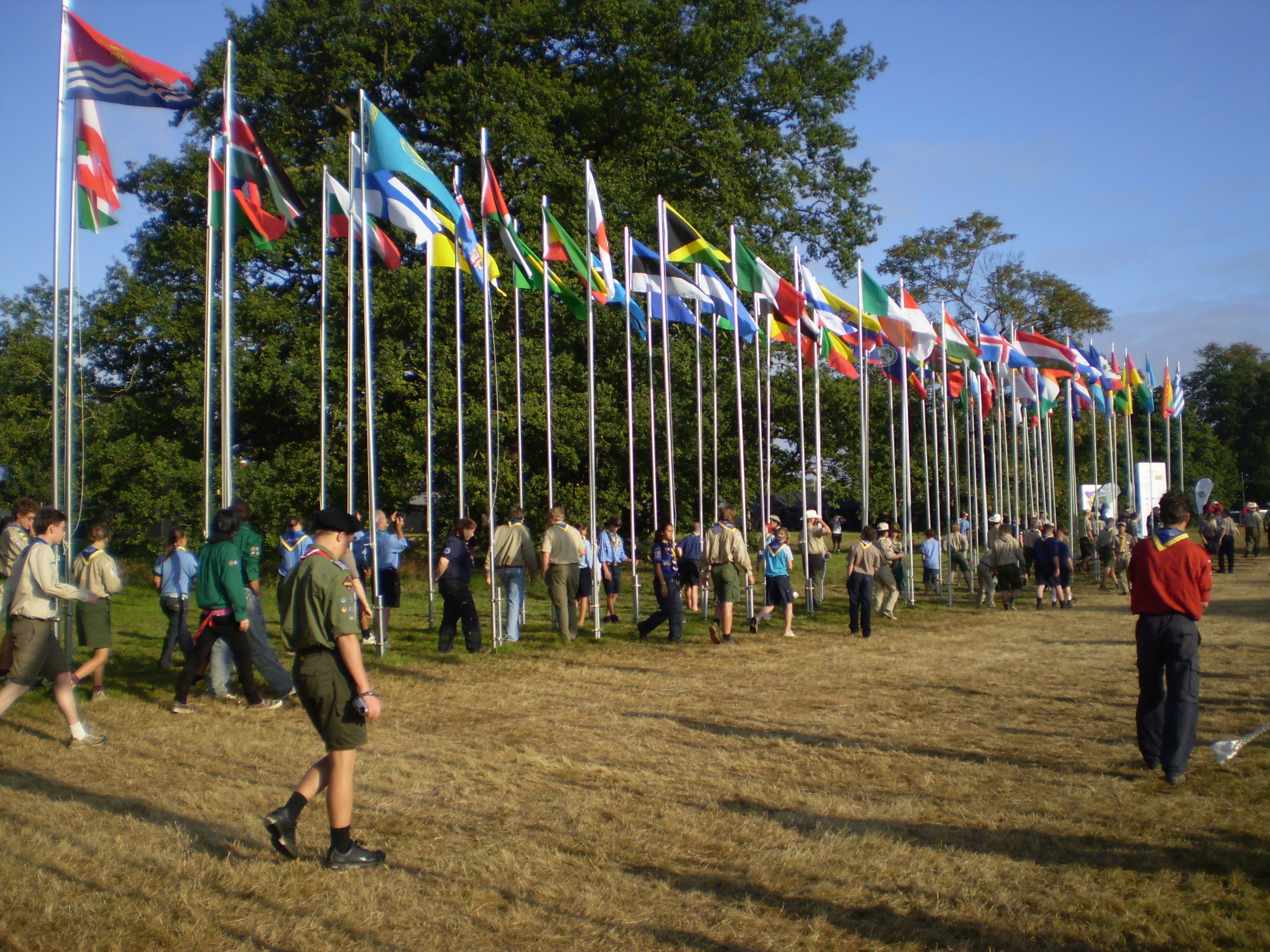 The flags at the main gate of the 21st World Scout Jamboree